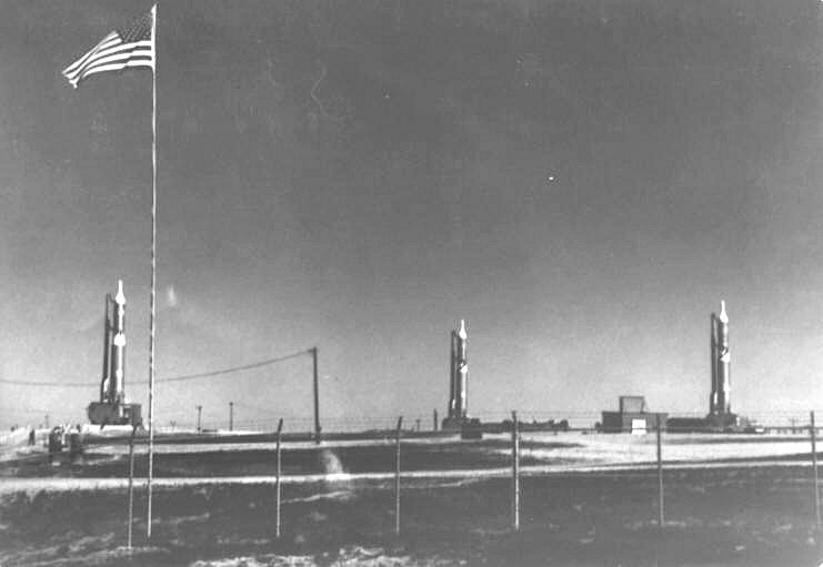 724 SMS 3 Titan I Missiles Site A 1962